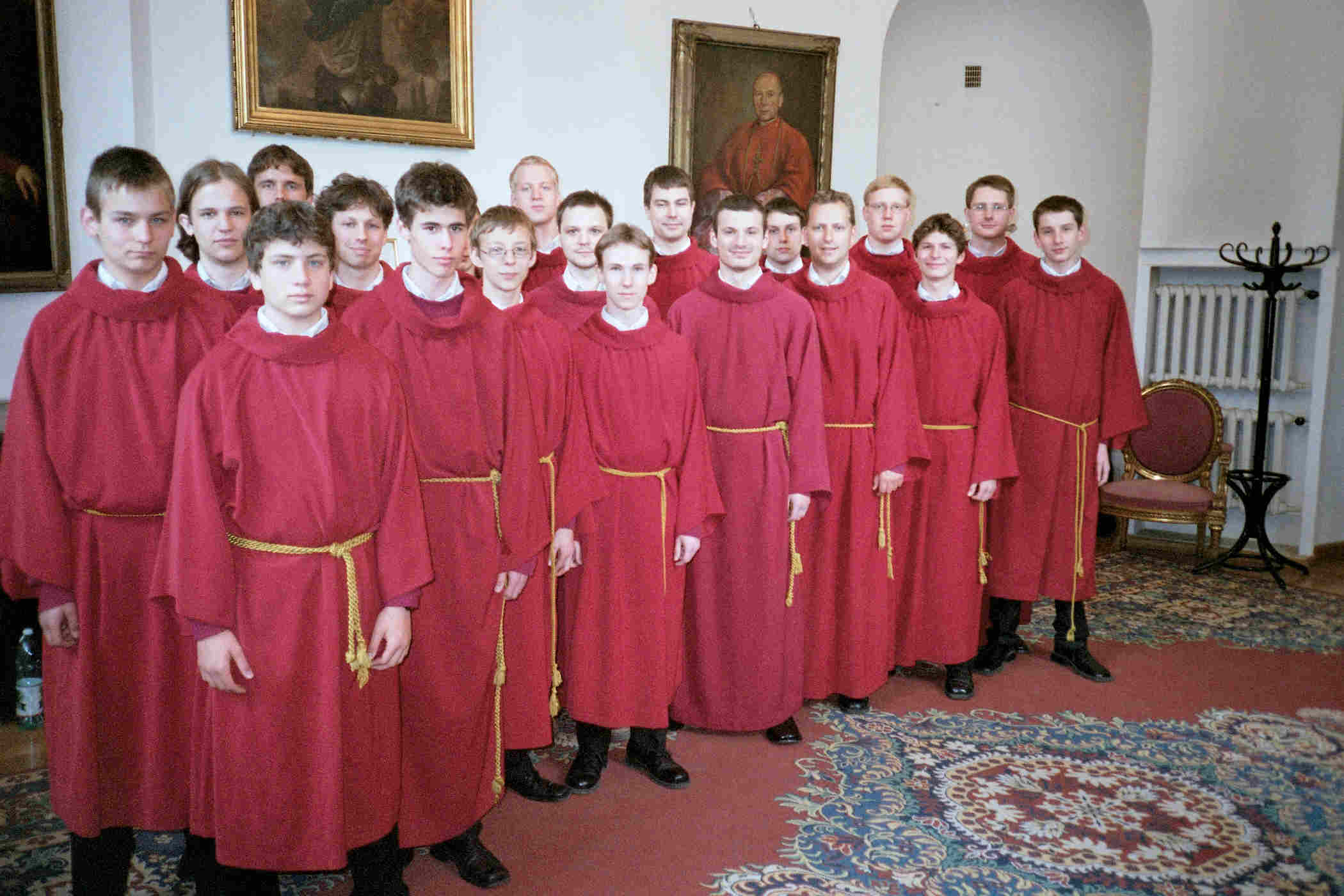 Cantores Minores - Warsaw Archdiocesan Cathedral Choir